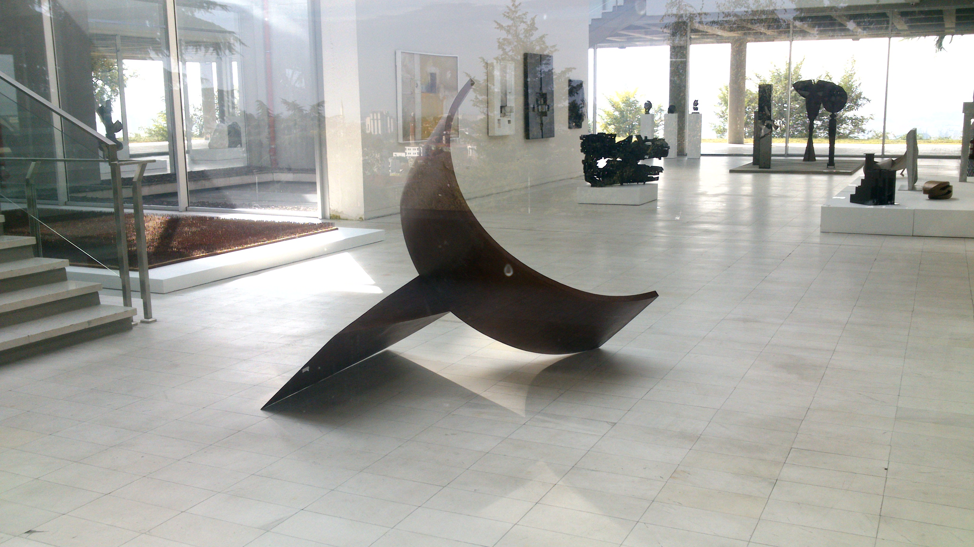 The Museum of Contemporary Art in Skopje, Macedonia Ова е фотографија на споменик на културата во Македонија со типски код: B08This is a a photo of a cultural monument in North Macedonia with type id: B08